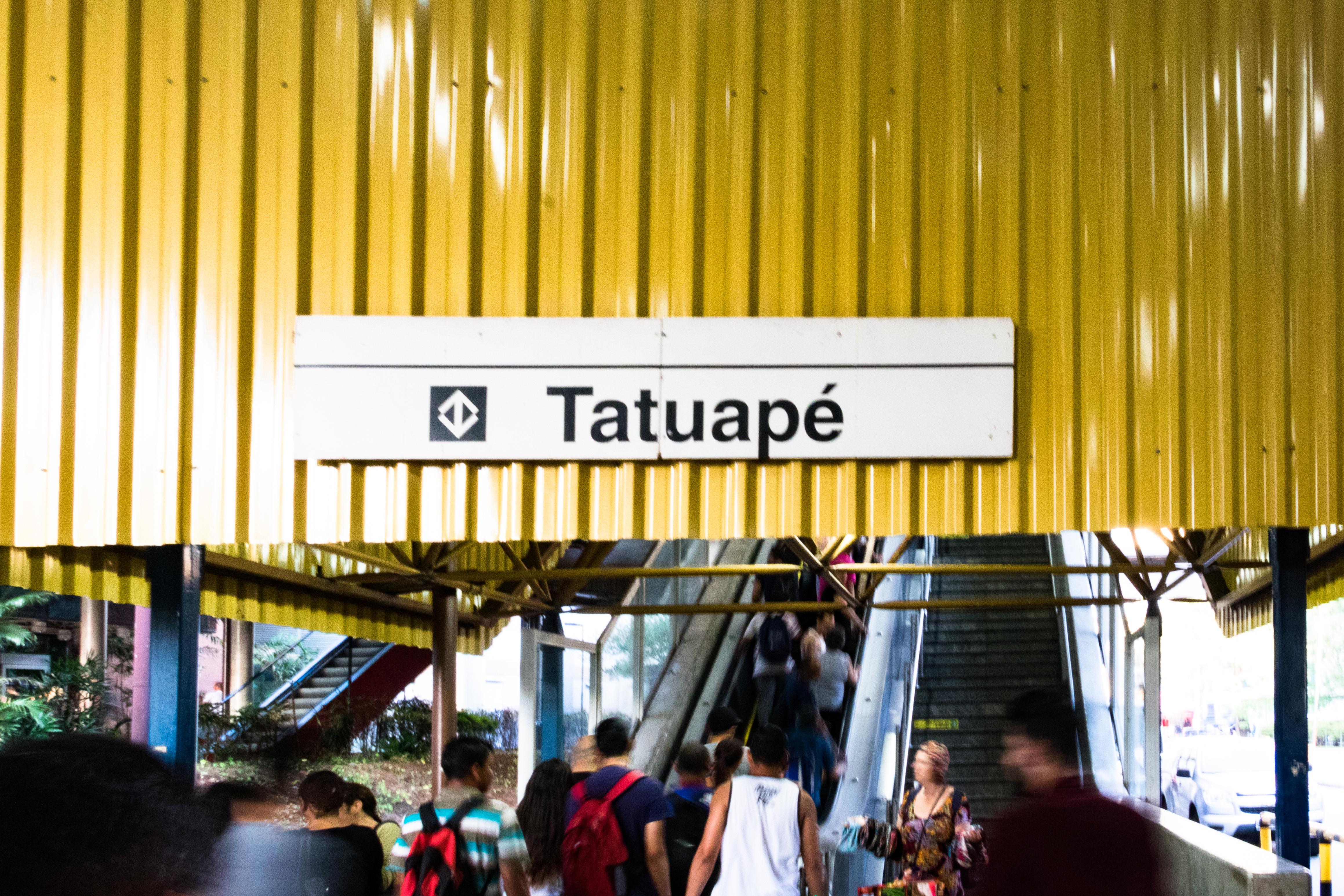 Tatuape Metro Station, São Paulo